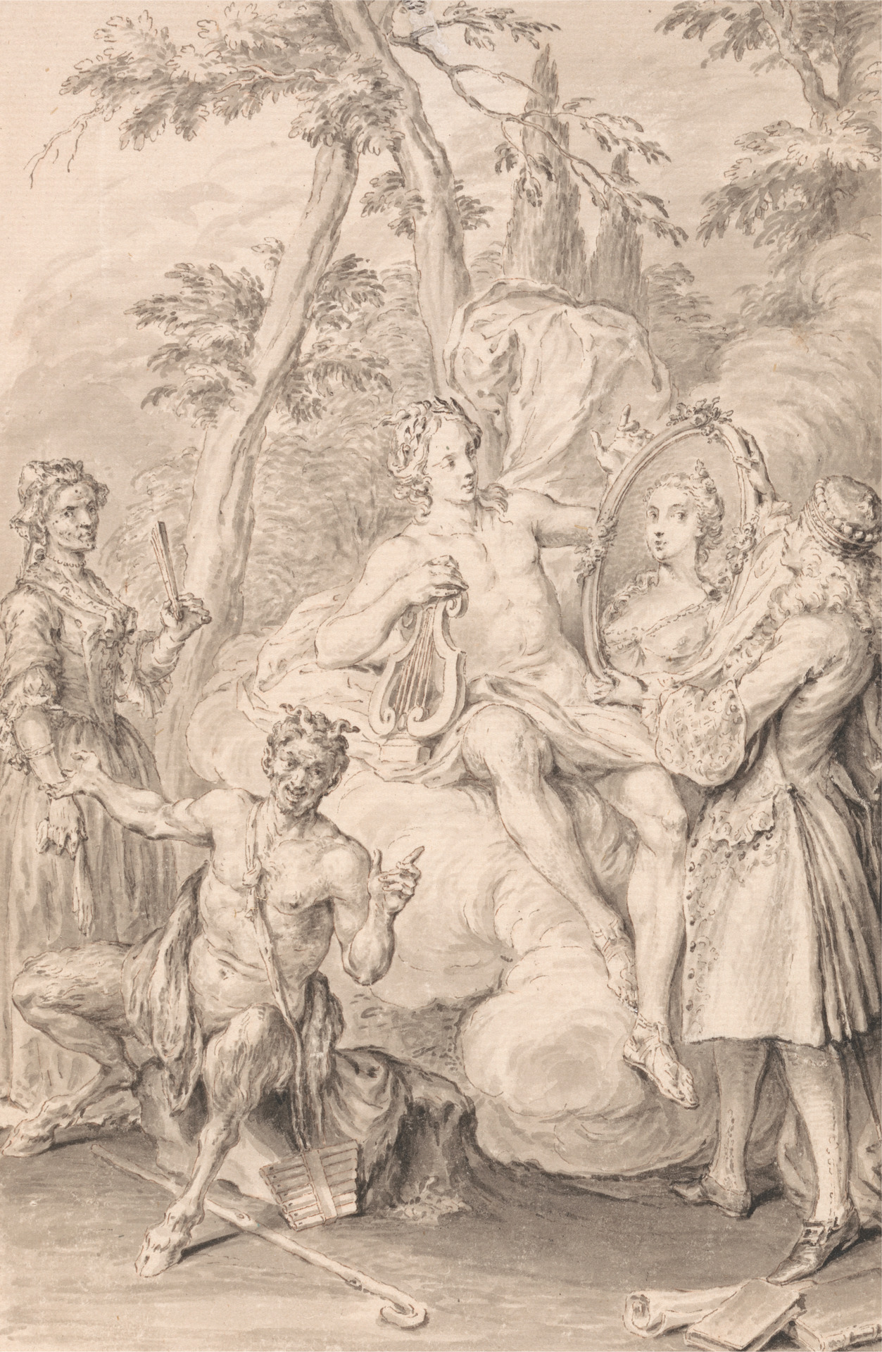 Drawing for frontispiece to The Toast, satirical poem by William King (1685–1763).